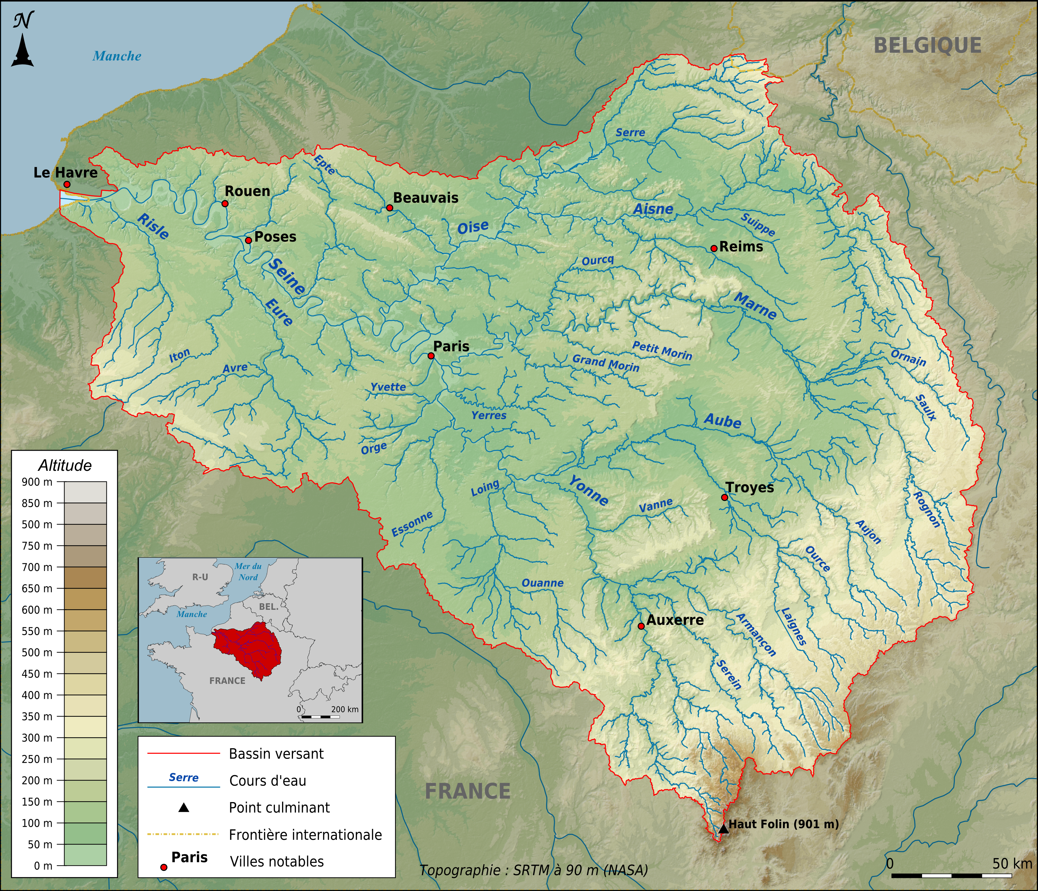 Topographic map of the Seine basin in French, in png format, Lambert 93 projection